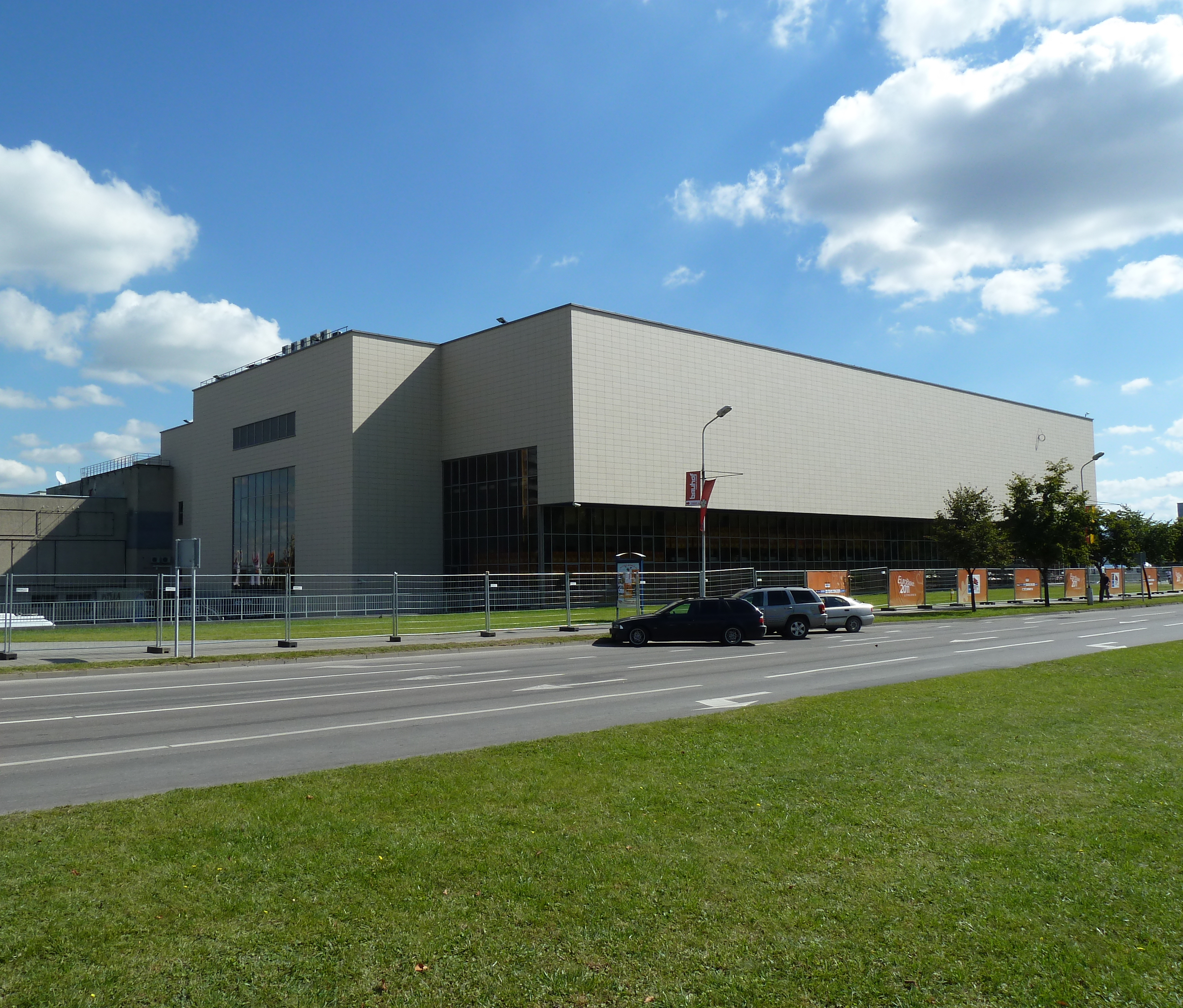 Alytaus Arena in Alytus, Lithuania during EuroBasket 2011.